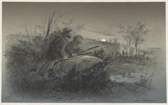 National Library of Australia picture nla.pic-an2377344. 'The avengers'.